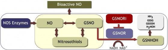 GSNO chemical reaction